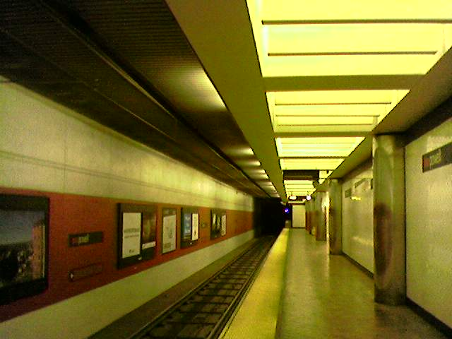 Powell Station's Inbound Platform.